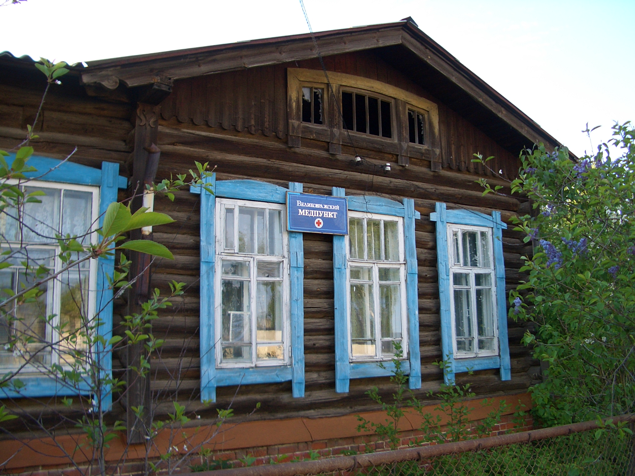 A small village clinic in Veliky Vrag, Nizhny Novgorod Oblast.